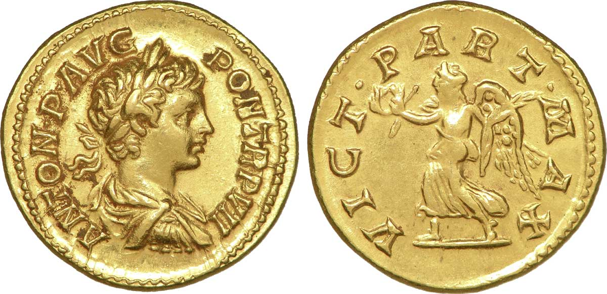 Aureus à l'effigie de Caracalla Date : 204 Description revers : Victoria (la Victoire) debout à gauche drapée, marchant à gauche, tenant une couronne de la main droite tendue et une palme de la main gauche . Traduction revers : “Victoria Parthica Maxima”, (La grande victoire parthique) . Description avers : Buste lauré, drapé et cuirassé à droite, vu de trois quarts en arrière (A*2) . Traduction avers : “Antoninus Pius Augustus Pontifex Tribunicia Potestate septimum”, (Antonin pieux auguste pontife revêtu de la septième puissance tribunitienne)